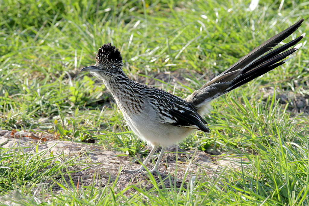 Observed in the Colorado Desert in Imperial county California.